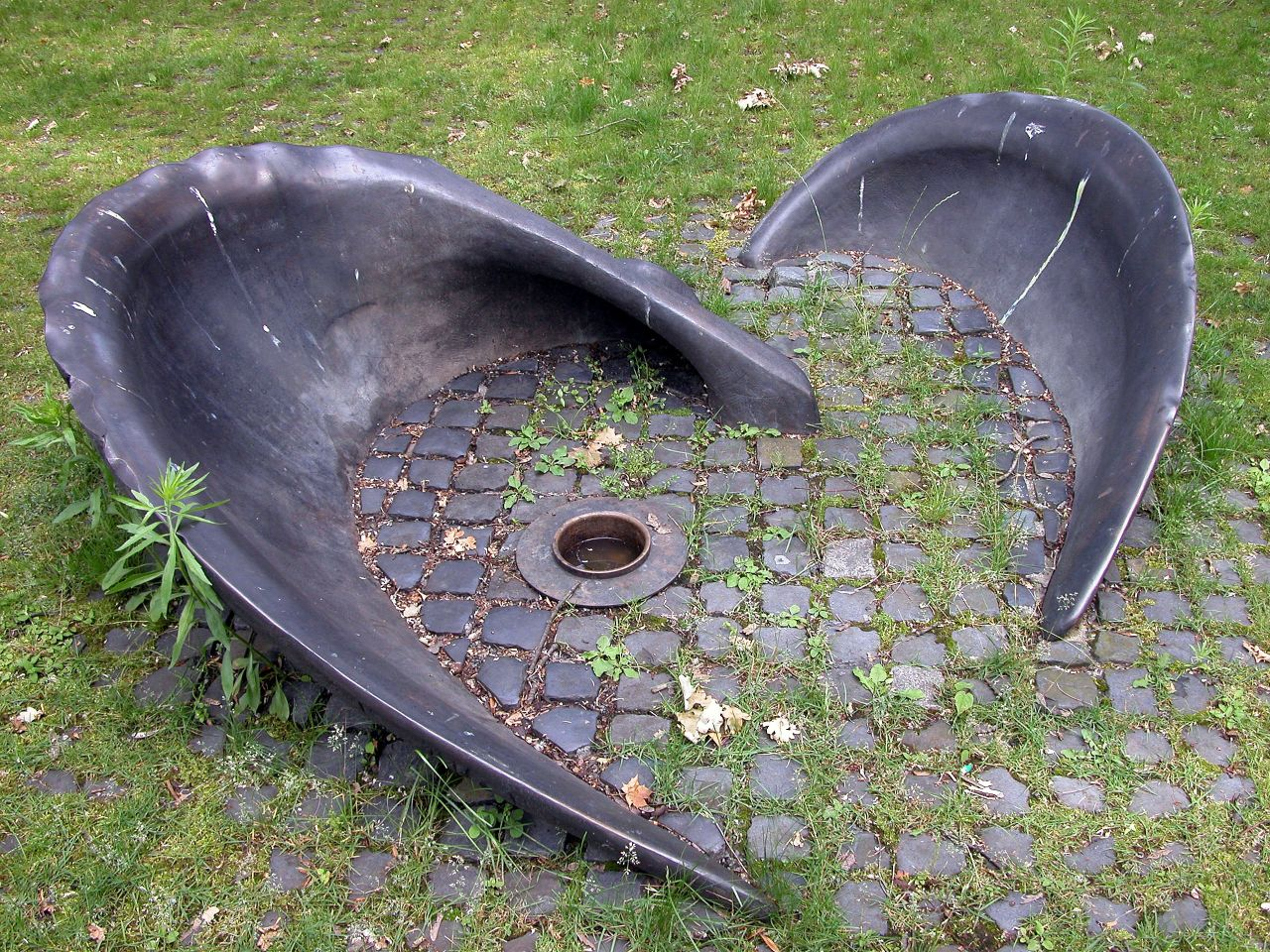 Brunswick, Germany: Heart-shaped monument for victims of National socialism